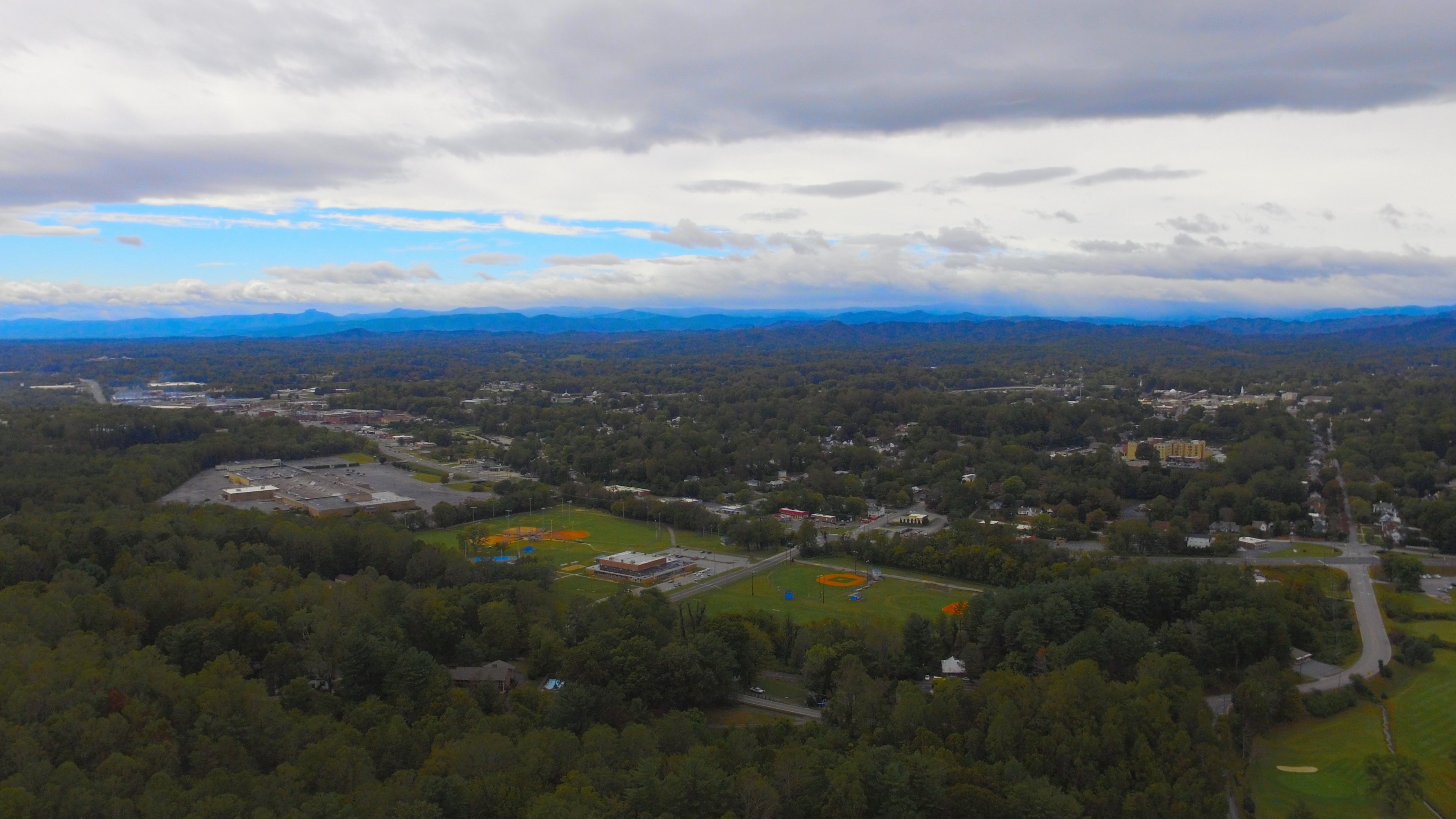 Above the Broyhill walking parking looking towards the Lenoir Recreation center. Table rock can be spotted in the far distance.